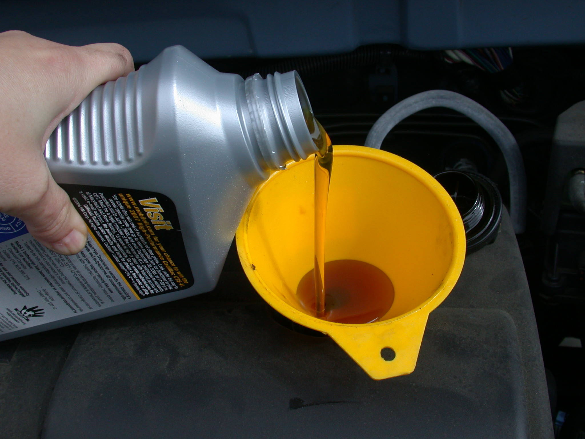 Using a funnel to refill the motor oil in an automobile as part of an oil change.